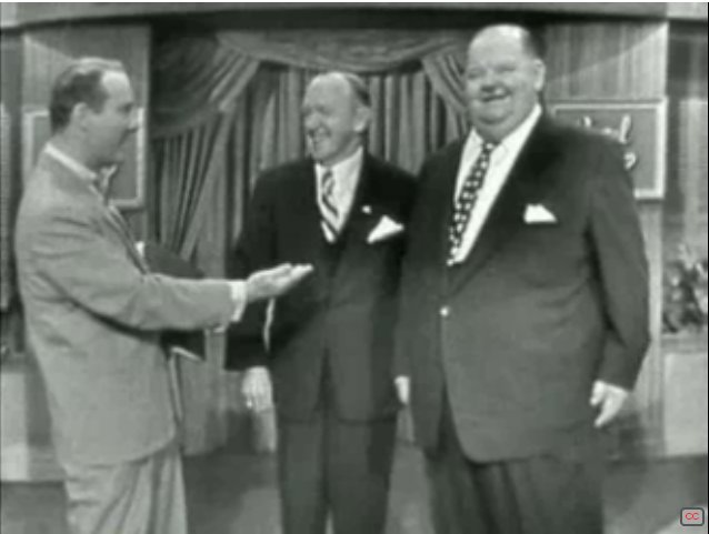 Screen capture showing Laurel and Hardy meeting Ralph Edwards on This is Your Life in 1956.